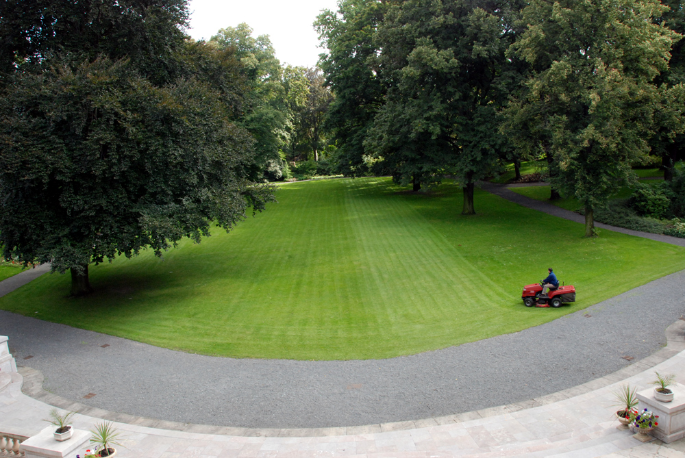 The Residence of the U.S. Ambassador in Prague’s Bubeneč was built by Otto Petschek in 1924—30.